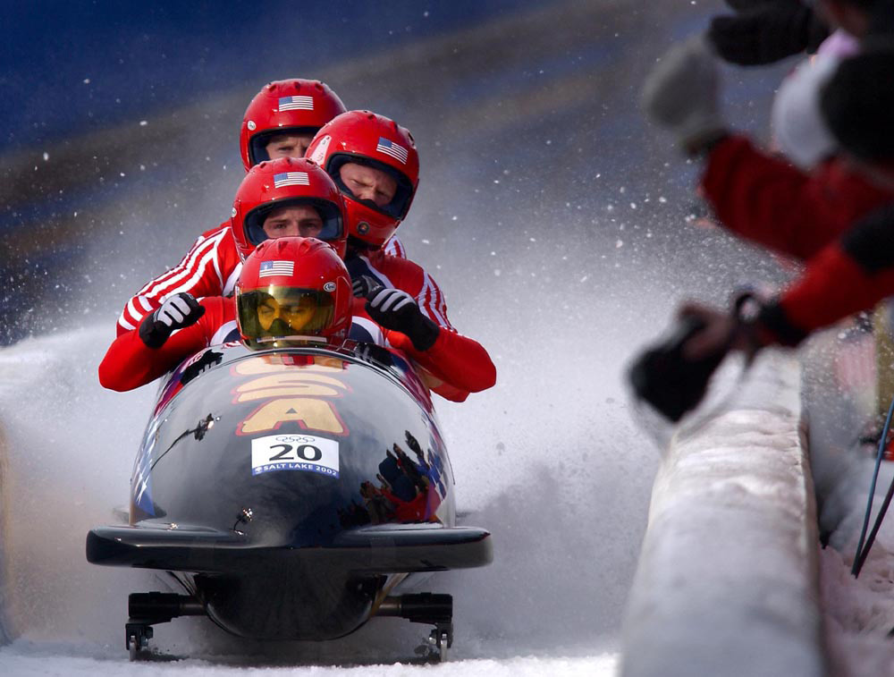 Driver Brian Shimer, Mike Kohn, Doug Sharp and brakeman Dan Steele come to a stop after finishing their third run for USA-2 at the Utah Olympic Park track in Park City, Utah, during the 2002 Winter Olympic Games. They went on to win the bronze medal behind USA-1 and Germany-2.